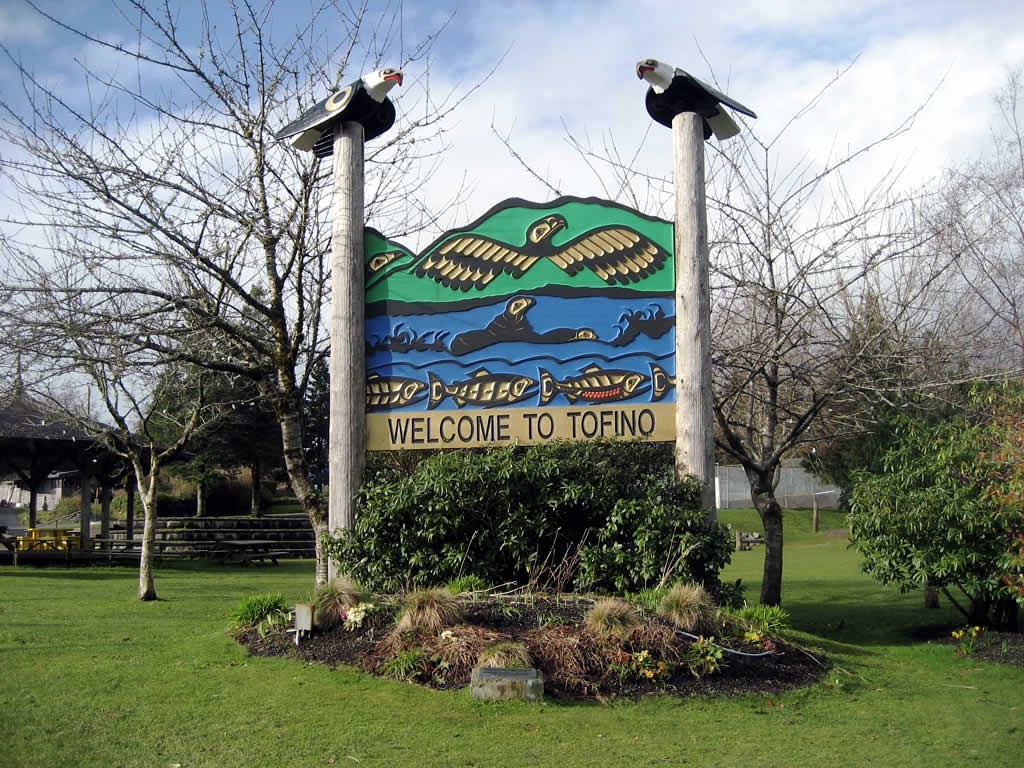 A signboard on Campbell Street welcomes visitors to Tofino, British Columbia, Canada.